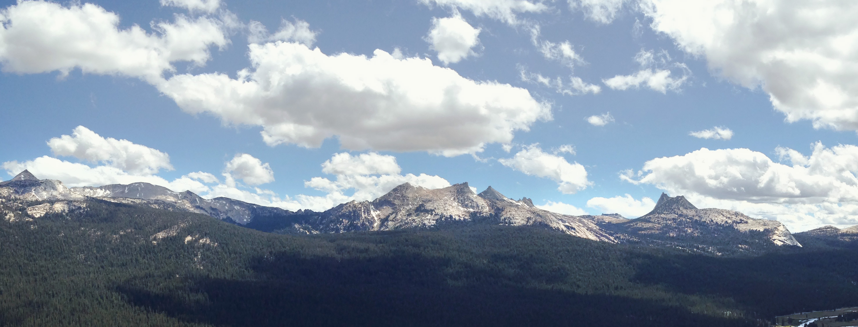 Cathedral Range in Yosemite National Park. Unicorn Peak in the middle, Cathedral Peak to the right. Taken from the top of Lembert Dome in Tuolumne meadows